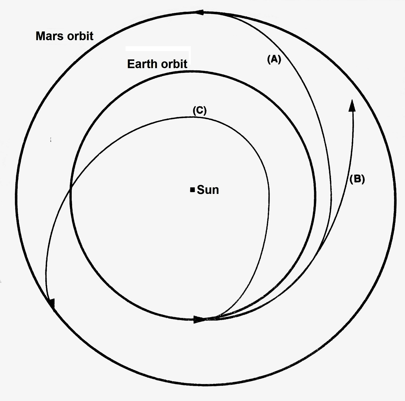 Trans-Mars injection diagram. A = Hohmann transfer orbit B = Conjunction mission C = Opposition mission